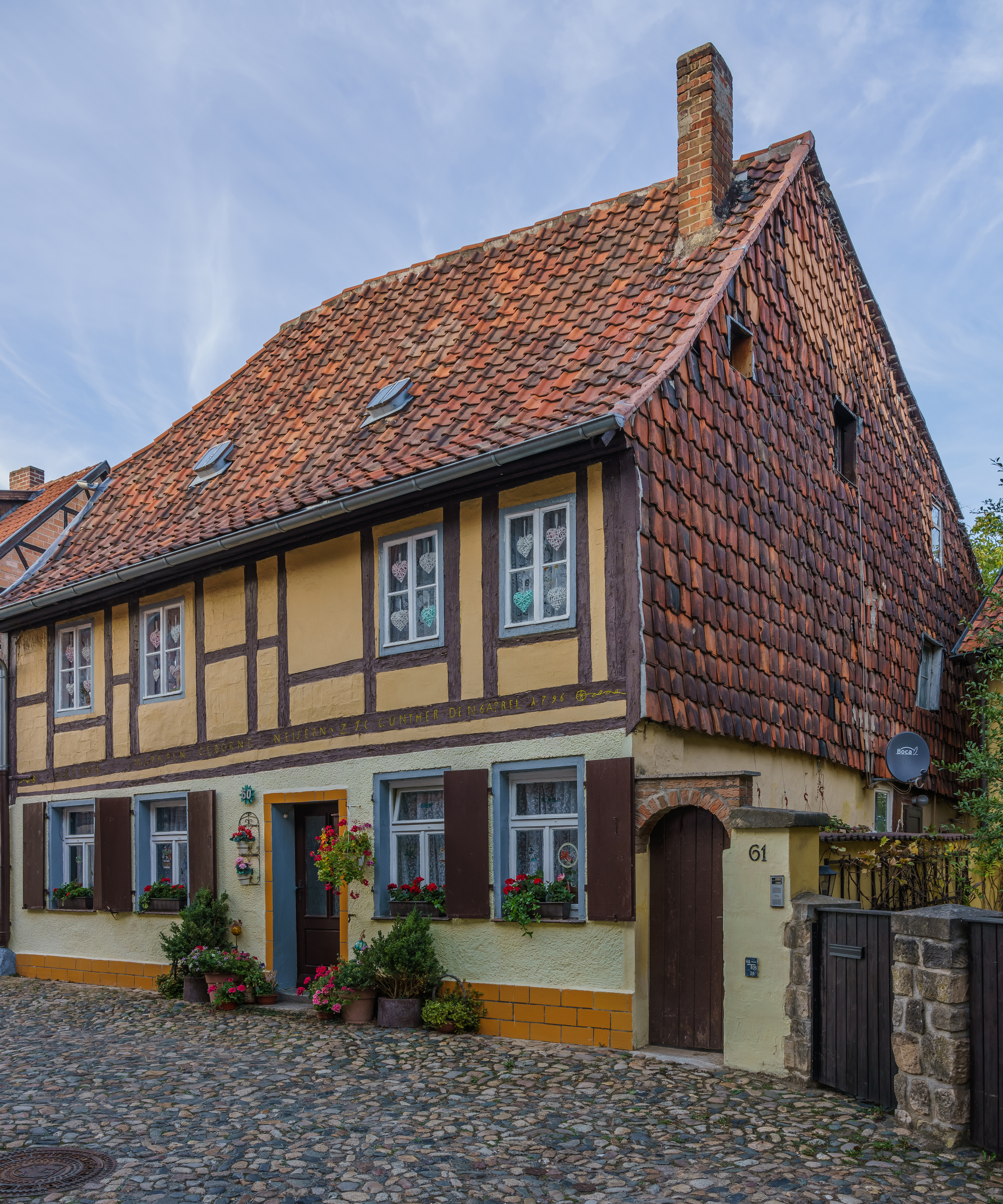 Münzenberg Hill in Quedlinburg, Germany